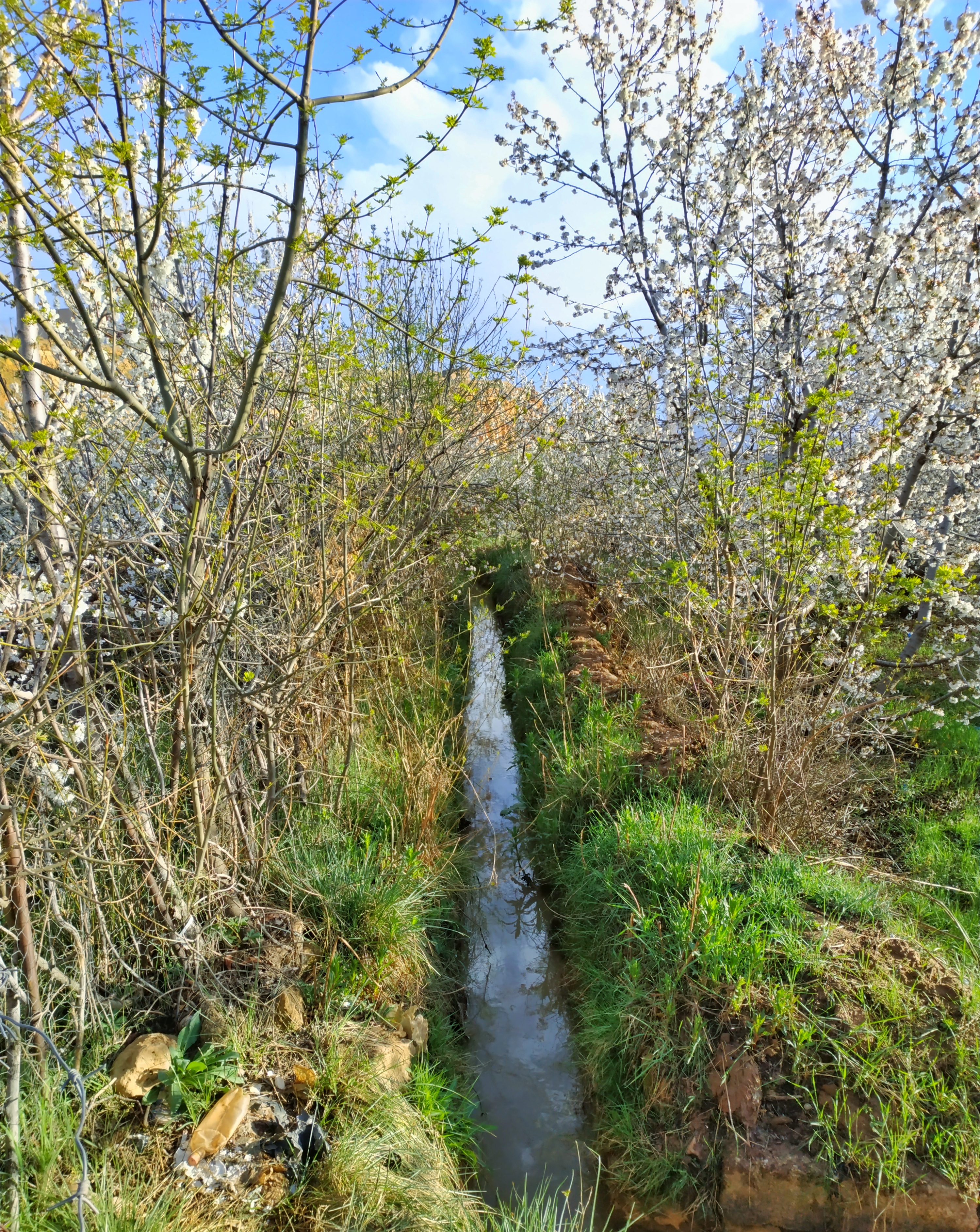 This is an image with the theme "Africa on the Move or Transport" from: Morocco